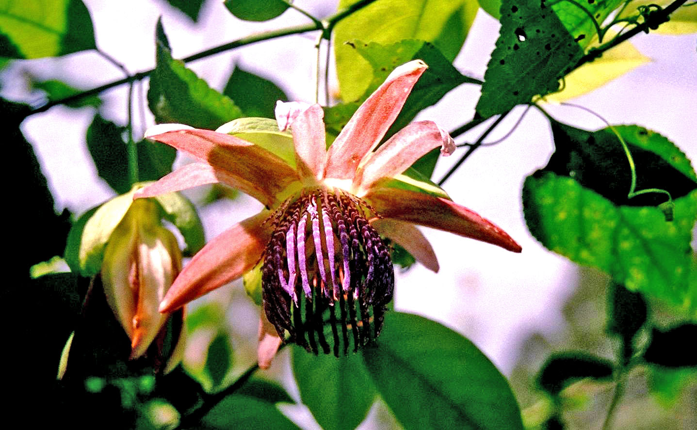 Somewhere in Costa-Rica.... I love the flower of Passilfora ambigua.